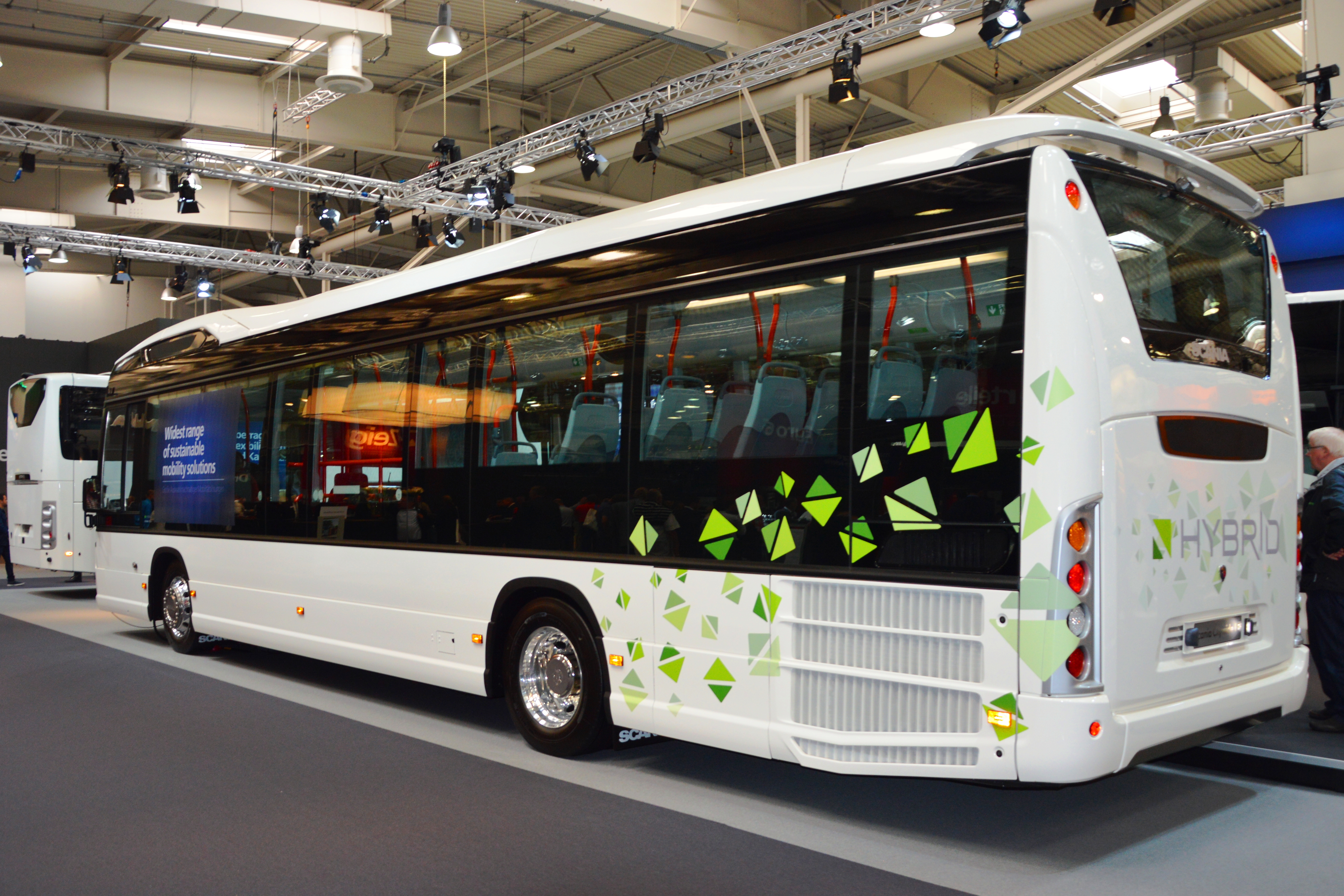 Scania Citywide LE hybridbus. 2 Engines: 1 x 9-litre Scania inline 5-cylinder Diesel (184 kW) and 1 x electric engine 150 kW. Length: 12 m. Photo taken at exhibition IAA 2014 in Hanover, Germany.